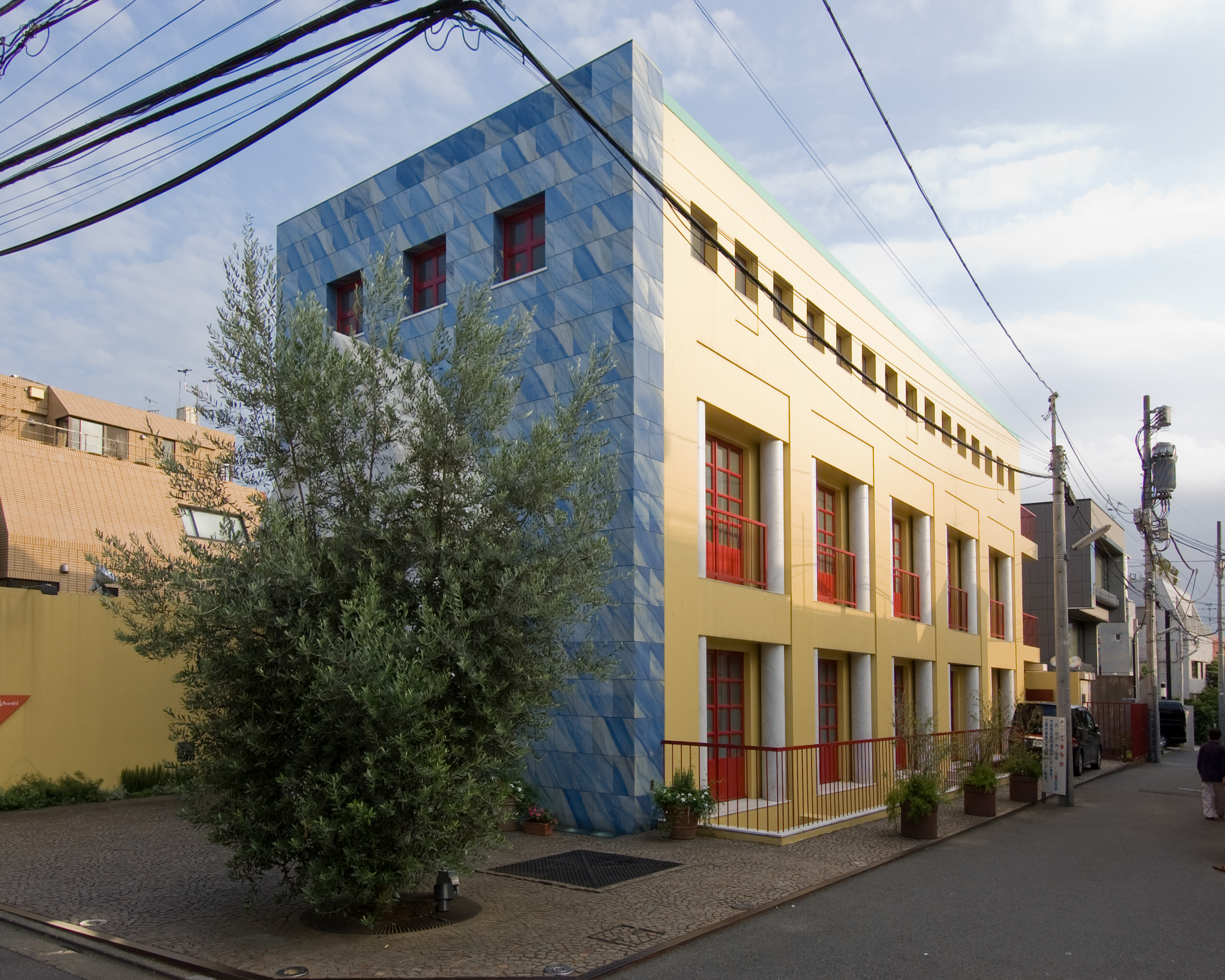 Ambiente Showroom( Jasmac Aoyama ), at Aoyama Tokyo Japan, Design by Aldo Rossi in 1991.